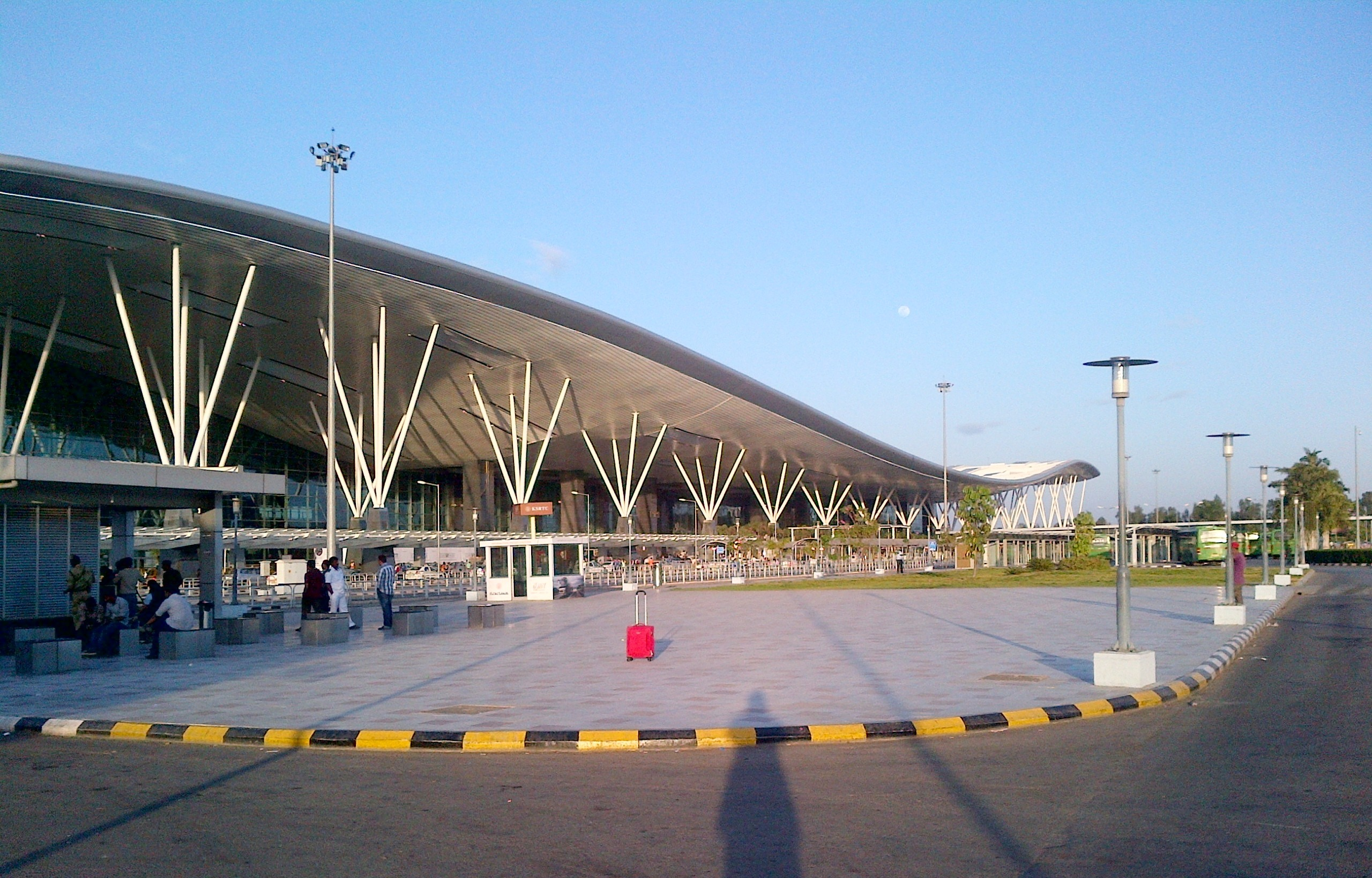 BLR airport in 2014